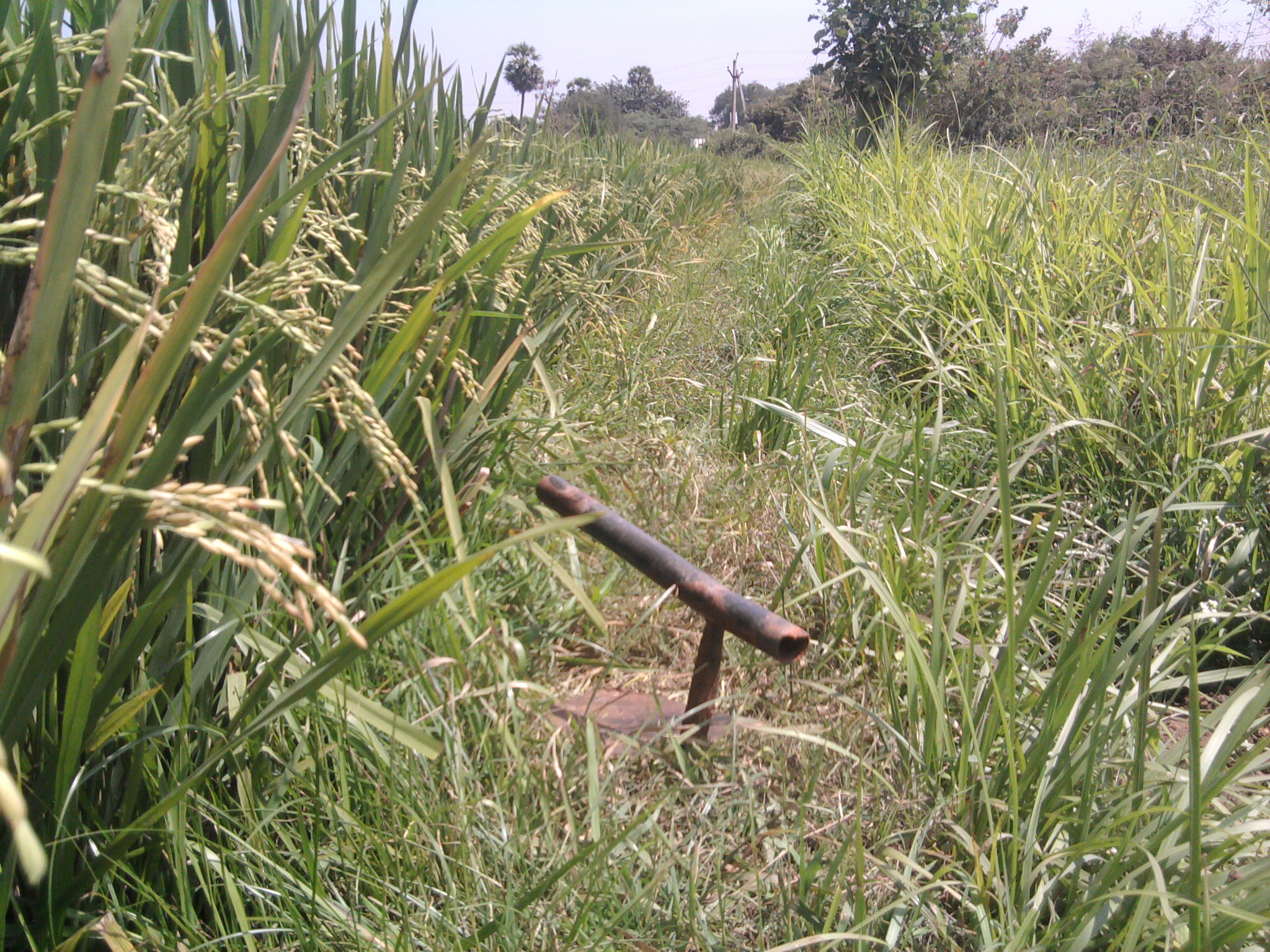 Garden tool Chalagapara